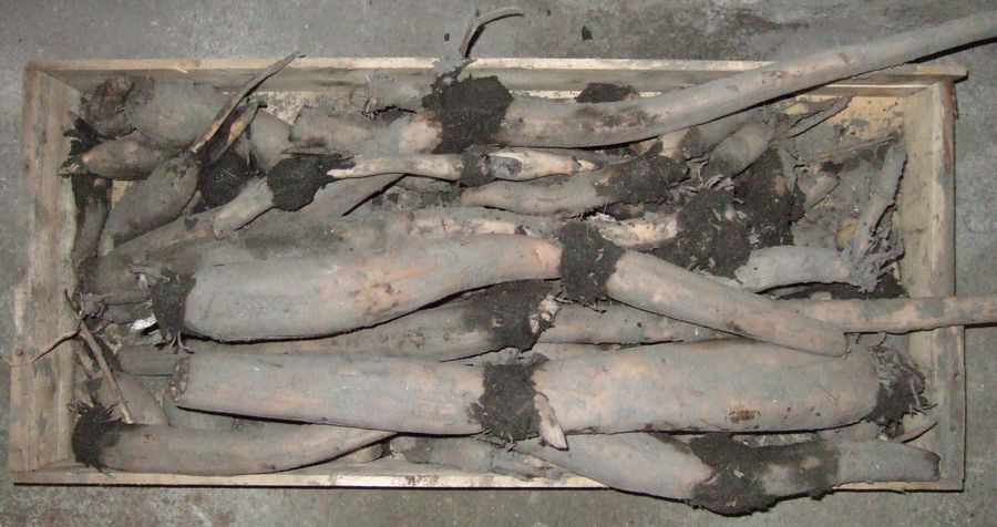 lotus roots before washing off mud of a field(田の泥を洗い落とす前のレンコン)